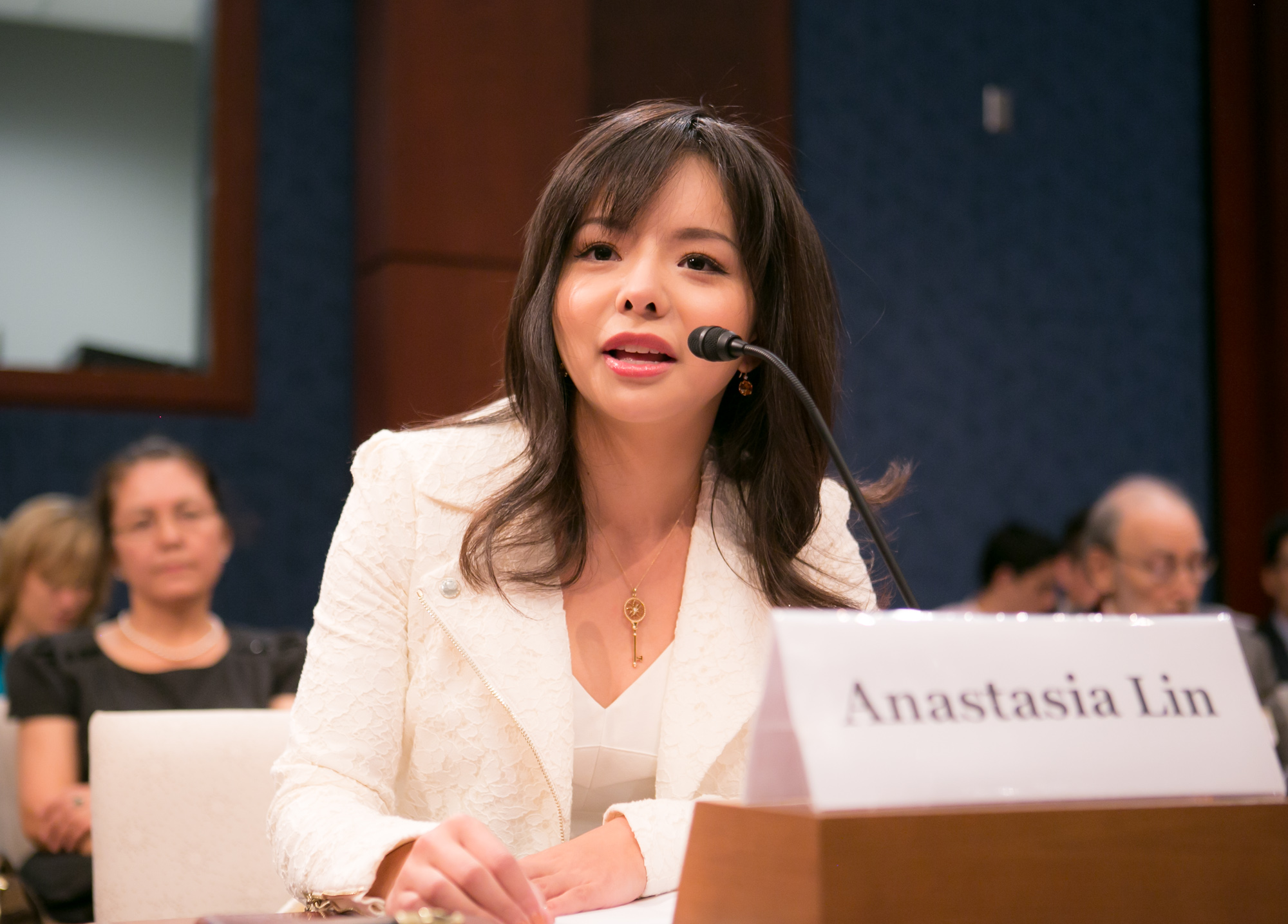 Anastasia Lin speaks to the United States Congress on July 27, 2015